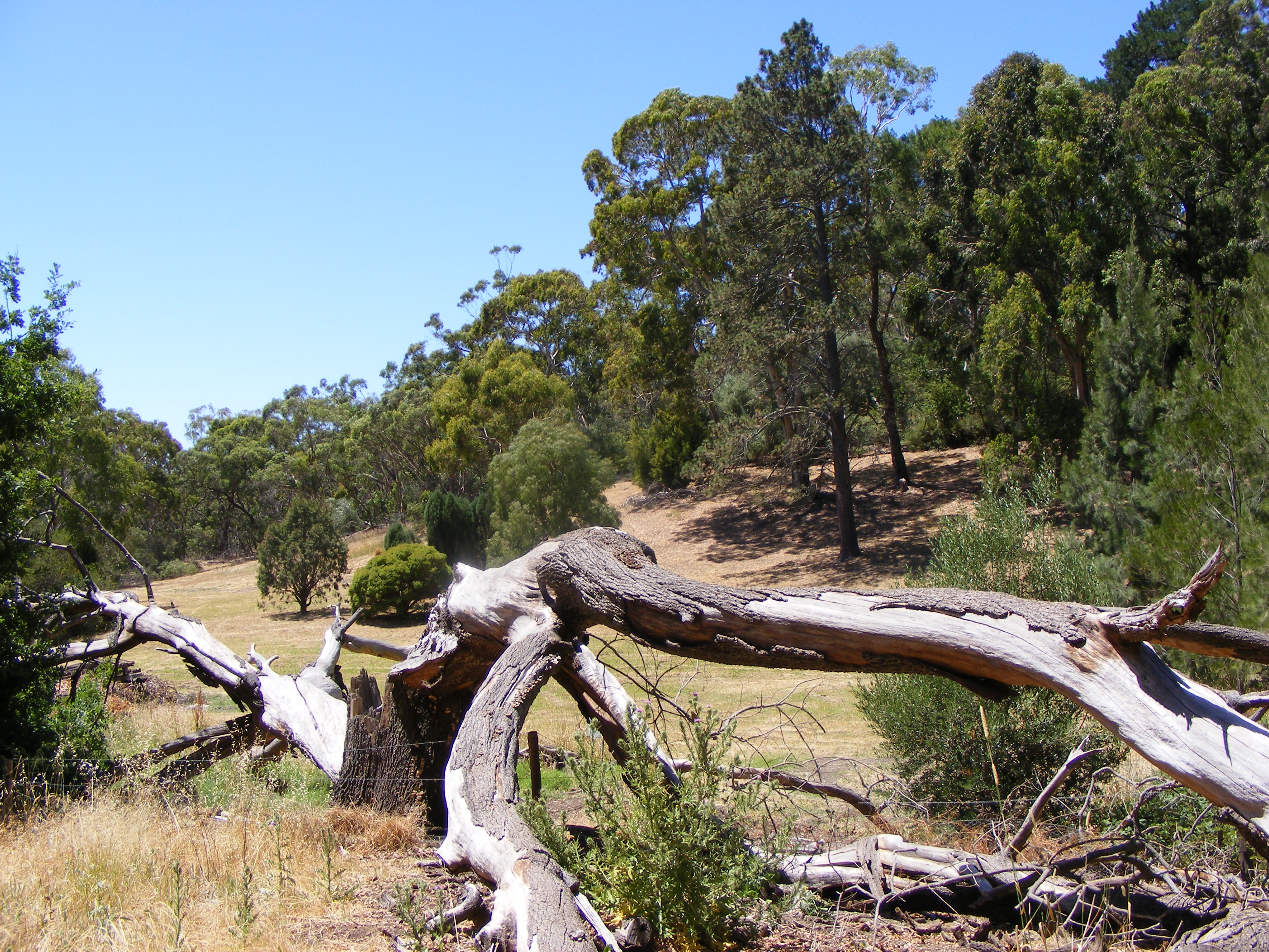 An old log, cleared park and backgroud bushland. Belair national park, Adelaide, South Australia